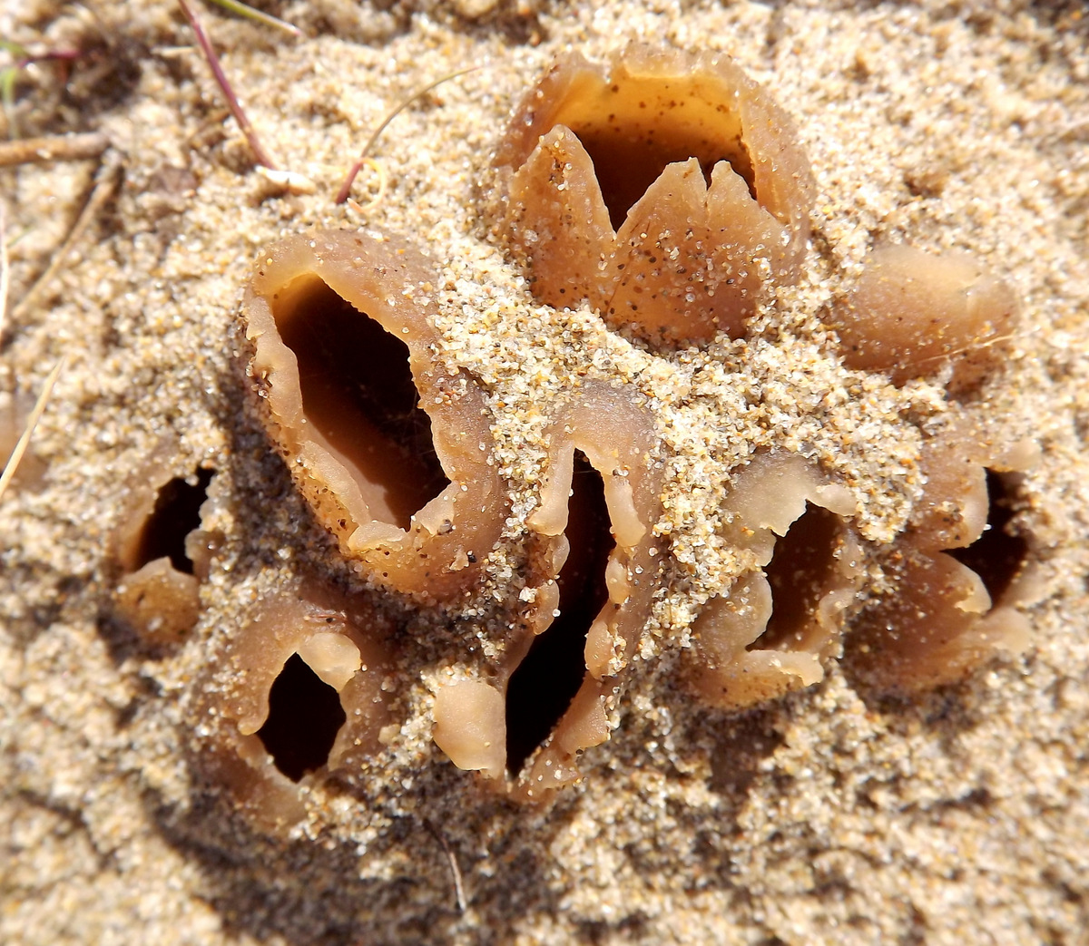 Peziza ammophila Durieu & Lév. Image location: North Bend, Coos Co., Oregon, USA Recognized by sight For more information about this, see the observation page at Mushroom Observer.